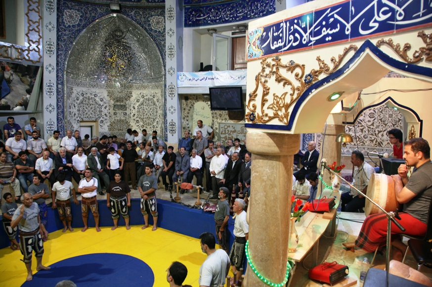 Shahid Fahmideh Zurkhaneh in Tehran.